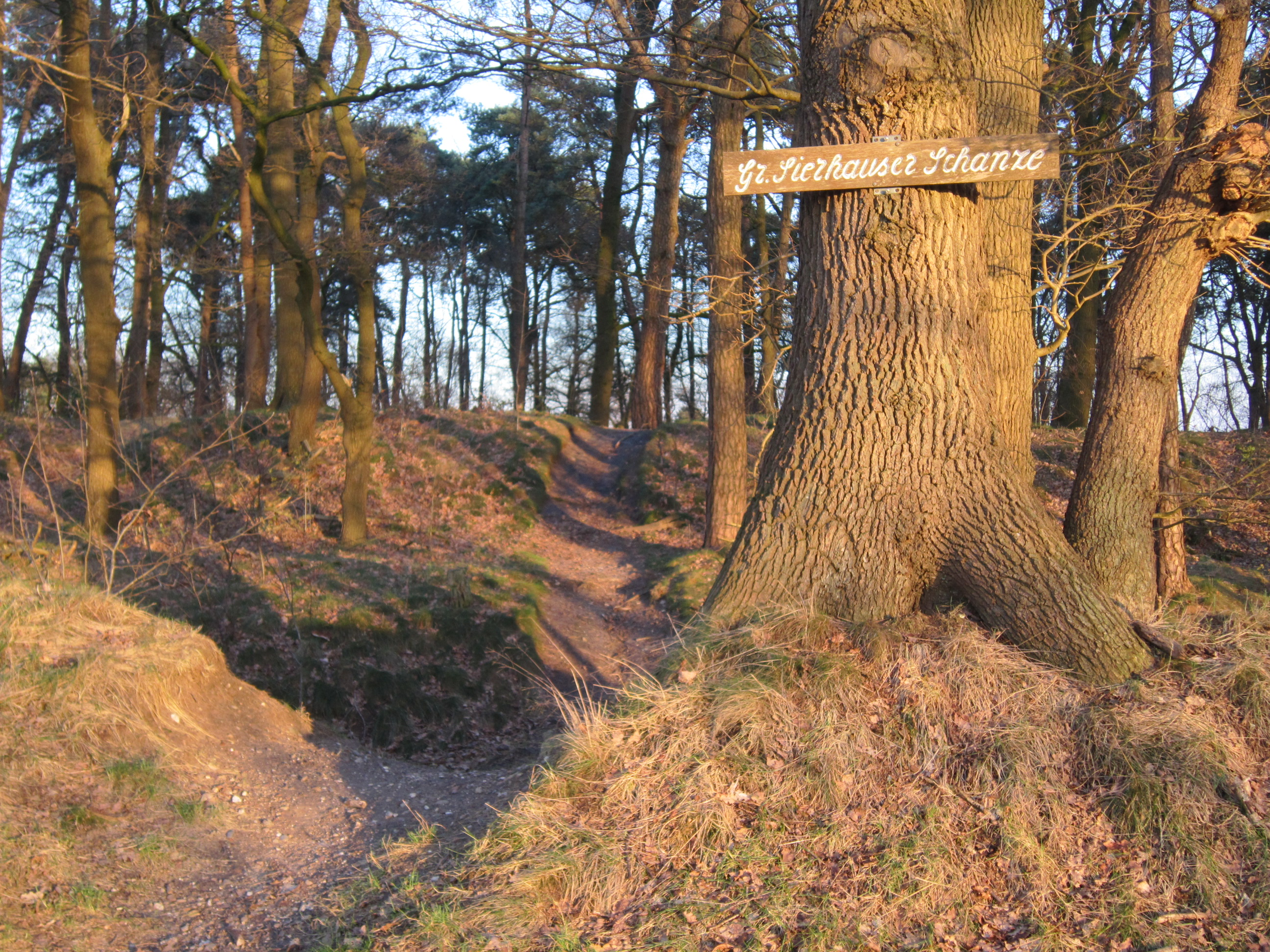 Great hill fort Sierhausen; City of Damme (Dümmer) in Lower Saxony